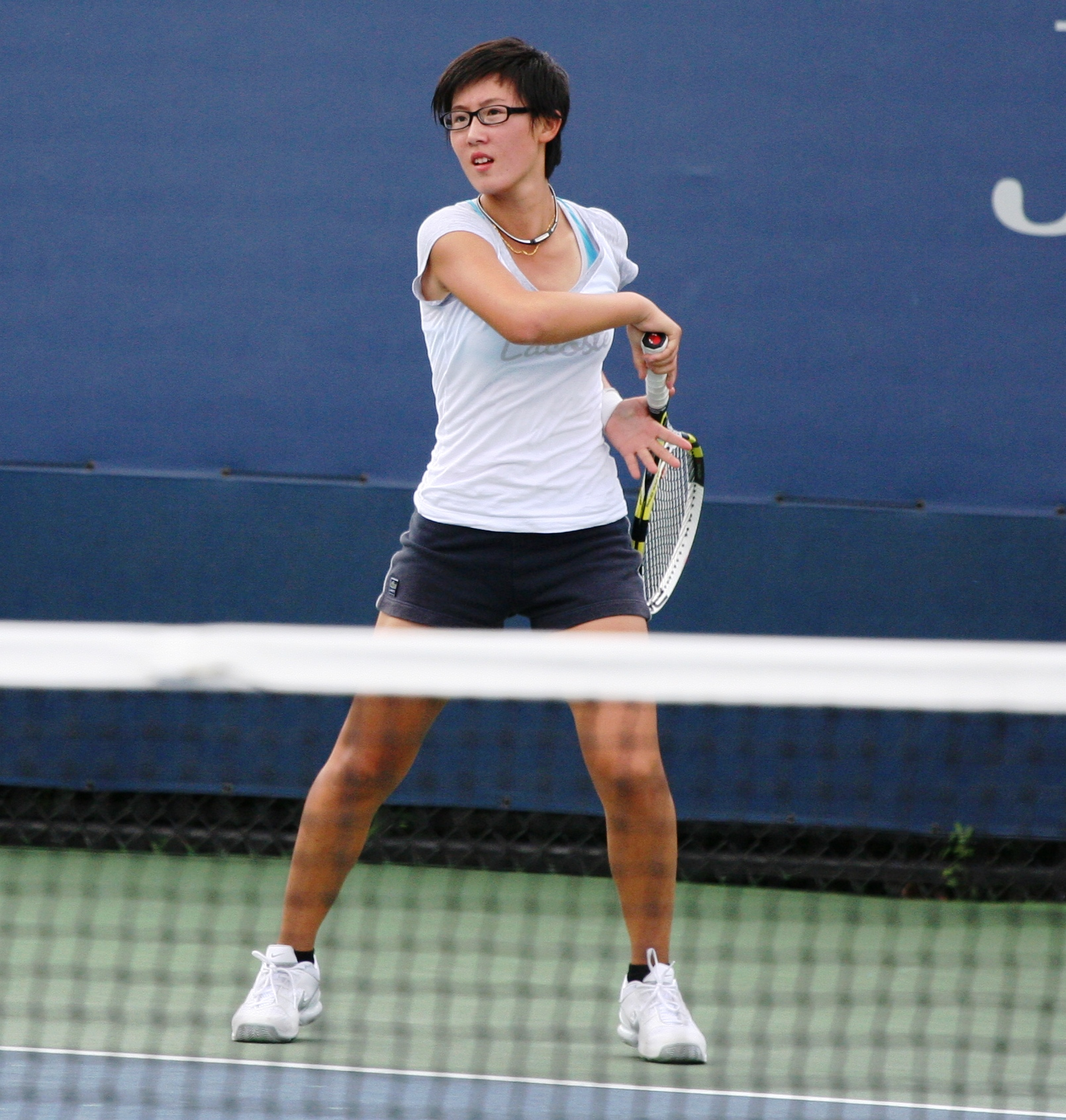 U.S. Open practice Saturday, Sept. 4, 2010